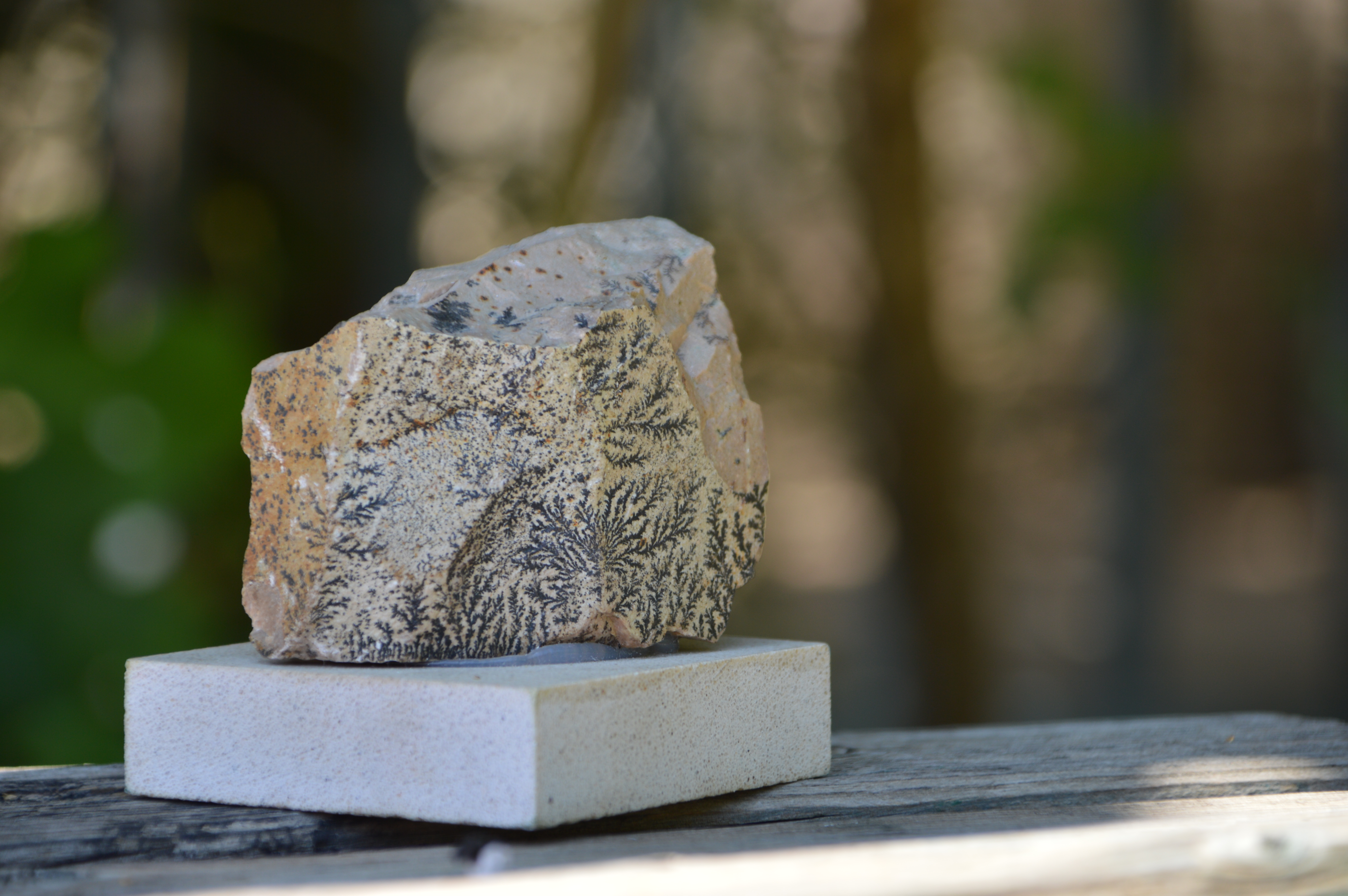 Stones of Sinai